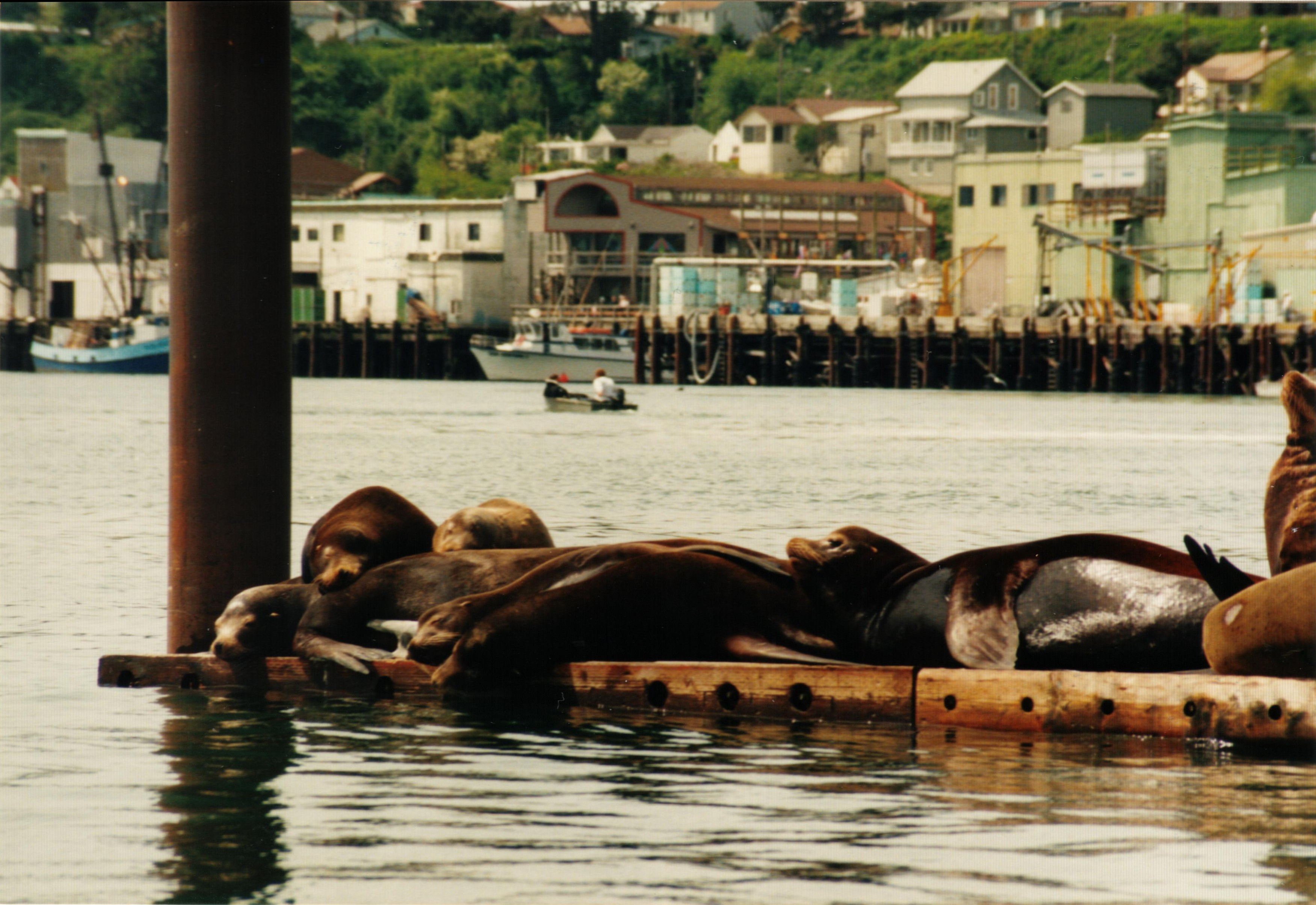 Sea lions on a Pier in the Yaquina Bay (Newport, Oregon)